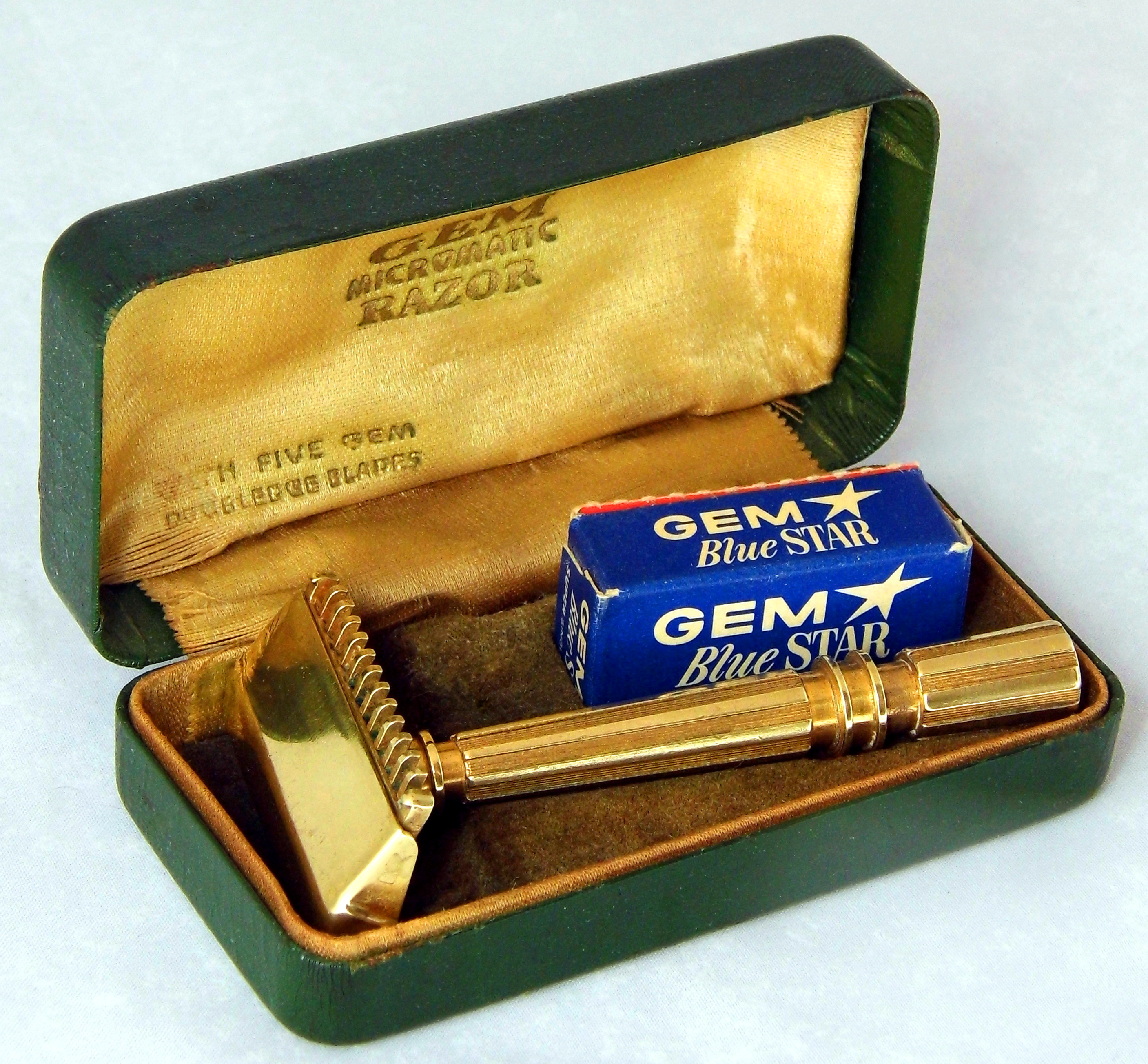 Vintage Gem Micromatic Safety Razor By The American Safety Razor Corporation, Single-Edge Blade, Twist-To-Open (TTO), Made In USA